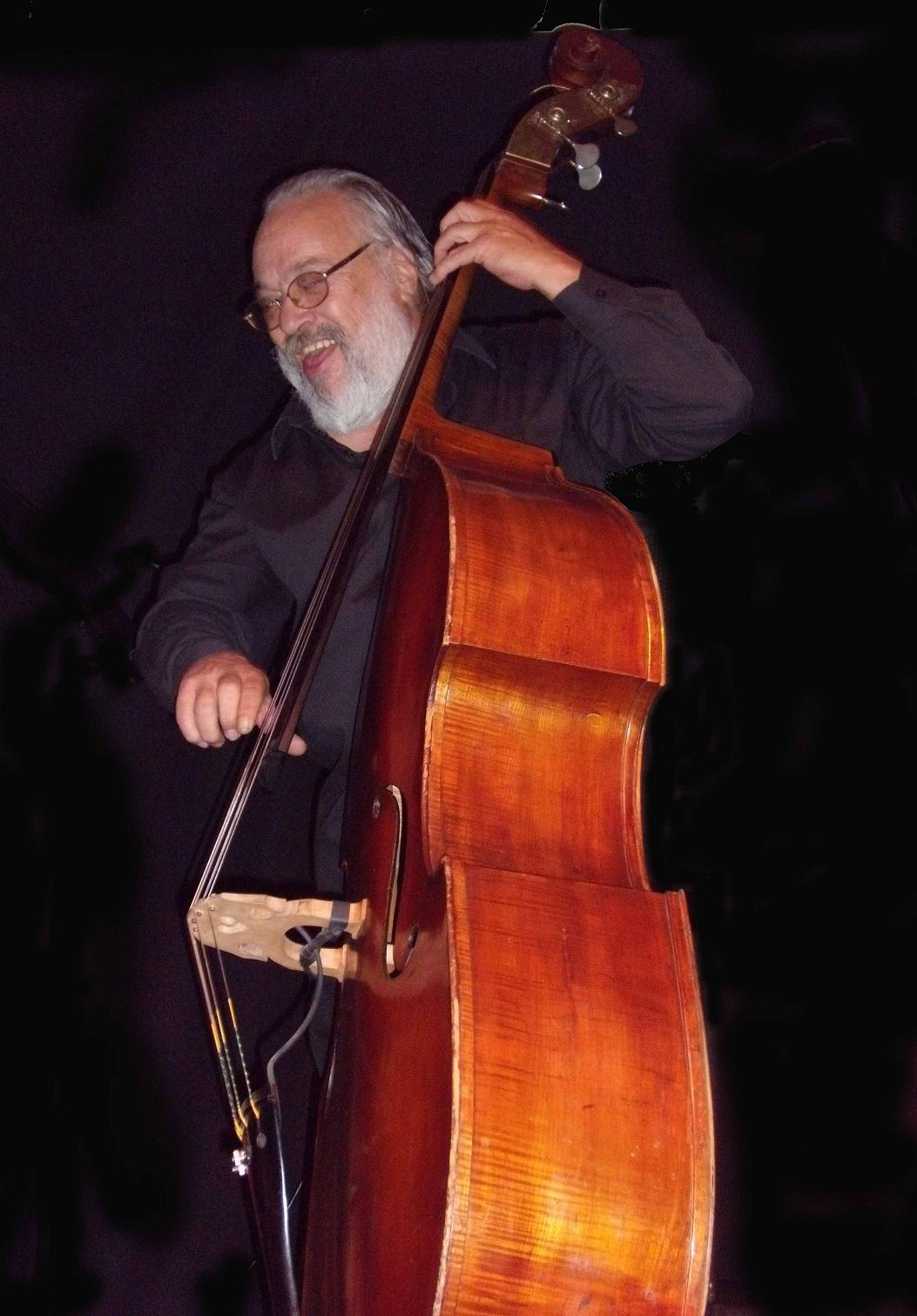 Alberto Jorge (musician)